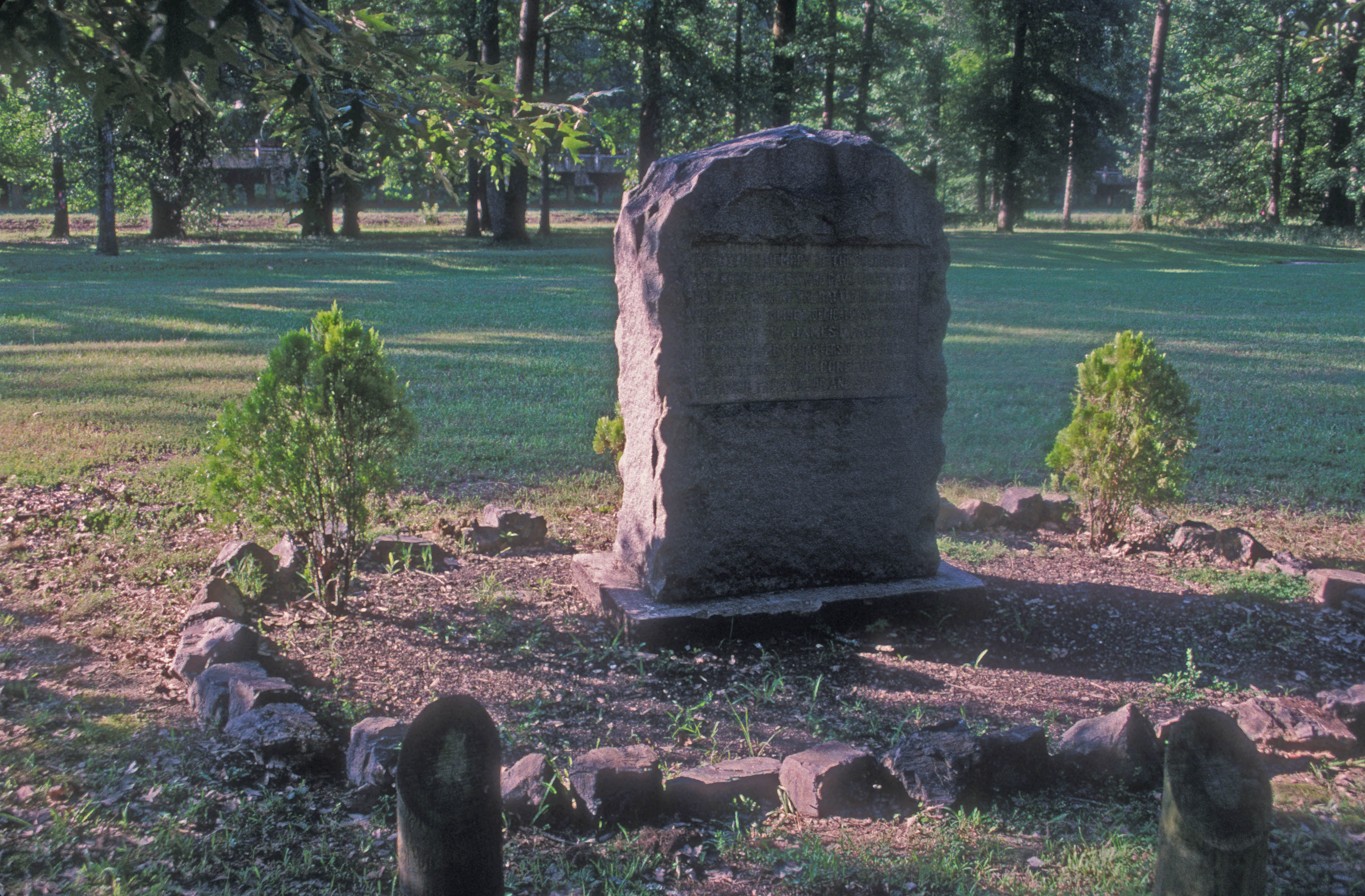 MONUMENT BY THE DAUGHTERS OF THE CONFEDERACY AT JENKINS FERRY BATTLEGROUND